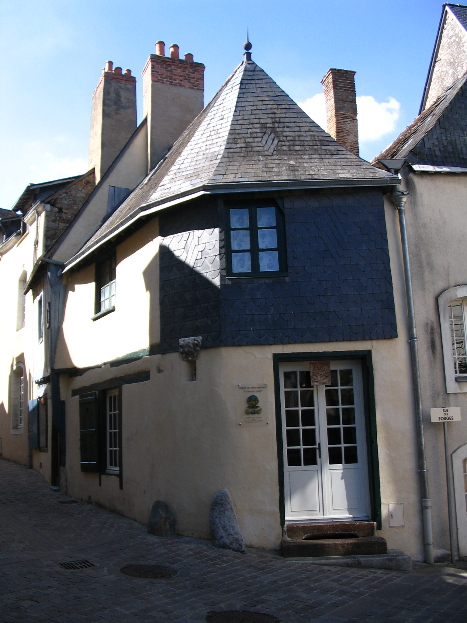 The aviation museum of Sablé-sur-Sarthe, Sarthe, France.